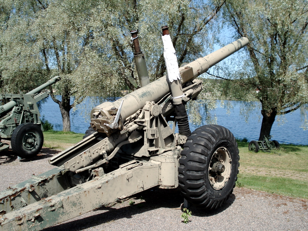 British Ordnance BL 5.5 inch (140 mm) M3 medium gun from year 1939, displayed in Hämeenlinna Artillery Museum. This gun: BL 5,5 MK 2&4 NL 79 RGFD (Royal Gun Factory).